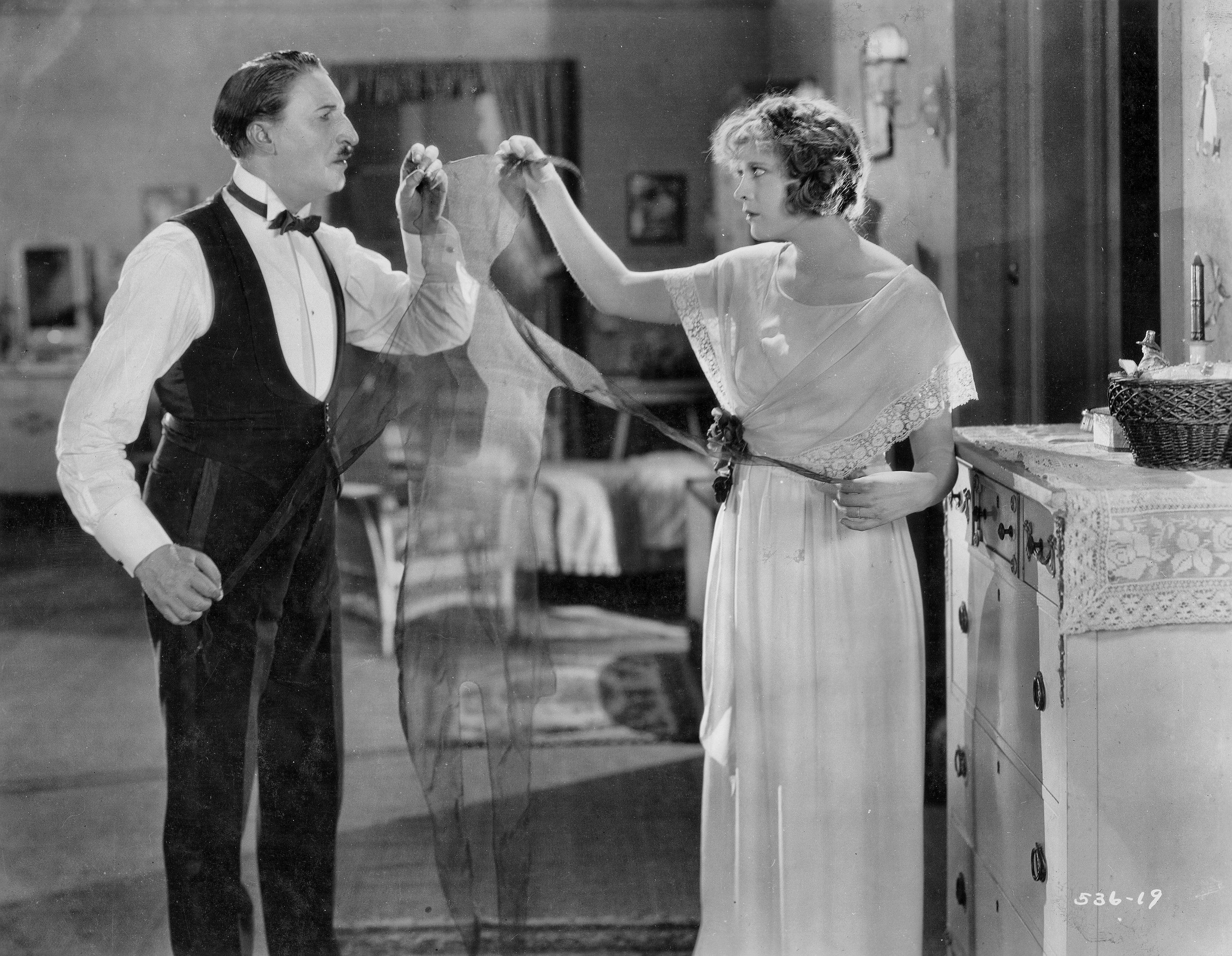 Parts of this film were shot along Orange County's coast. There are no known copyright restrictions on this image. All future uses of this photo should include the courtesy line, "Photo courtesy Orange County Archives." Comments are welcome after reading our Comment Policy. Photo collected during research for the Orange County Archives' 2011 exhibit, "On Location: Silent Film In Orange County."